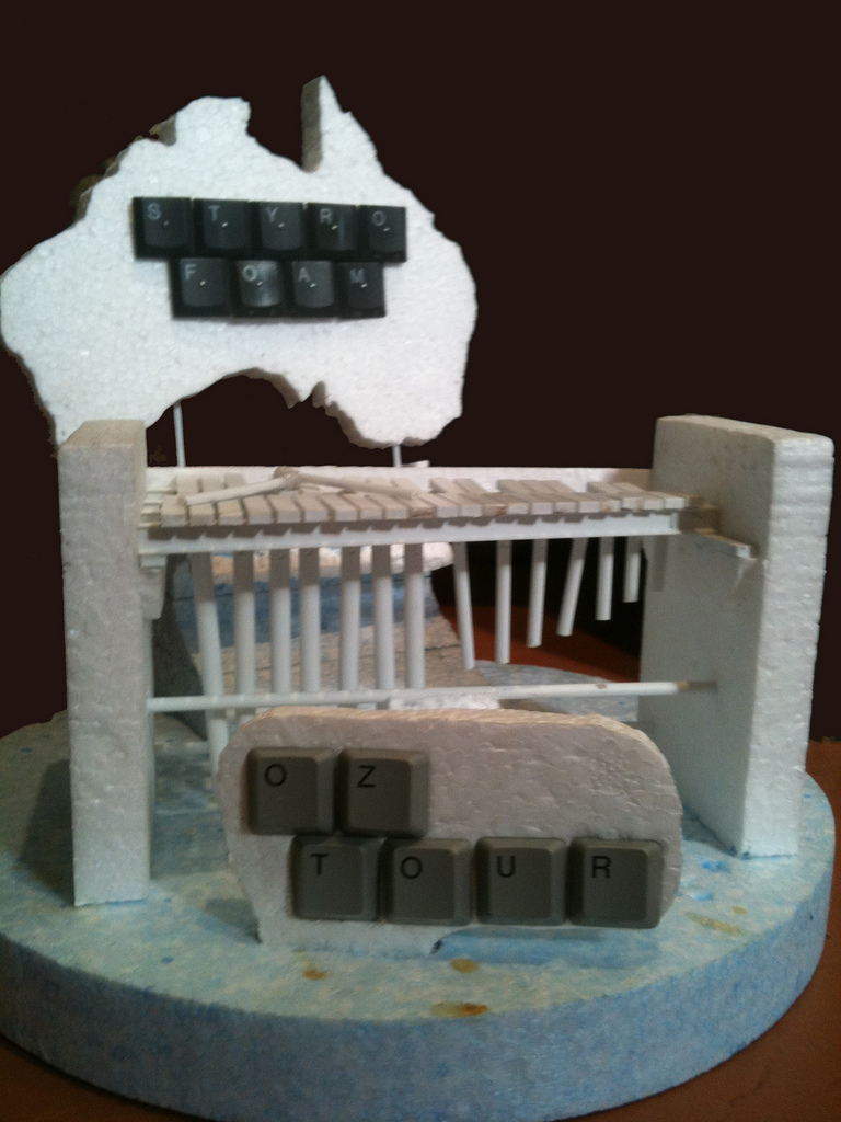 Styrofoam model of a vibraphone presented to George Hrab to commemorate his 2010 tour of Australia.